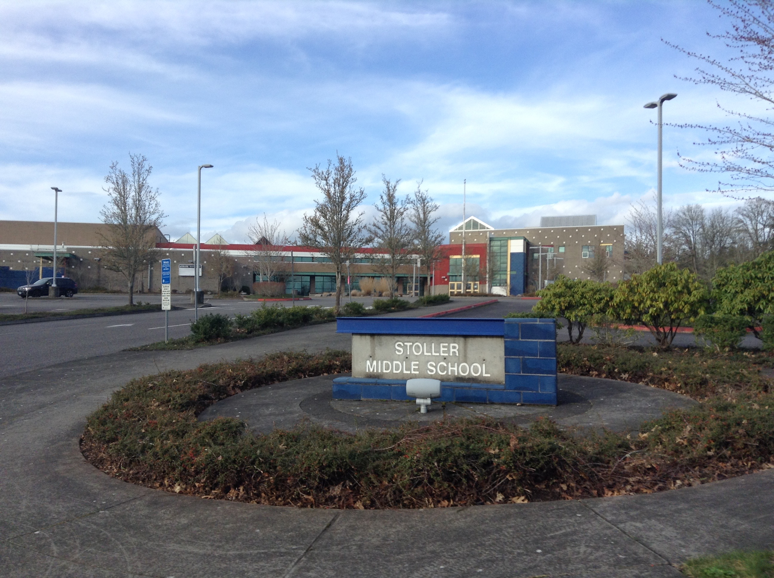 Stoller Middle School, part of the Beaverton School District. Taken in February 2016.